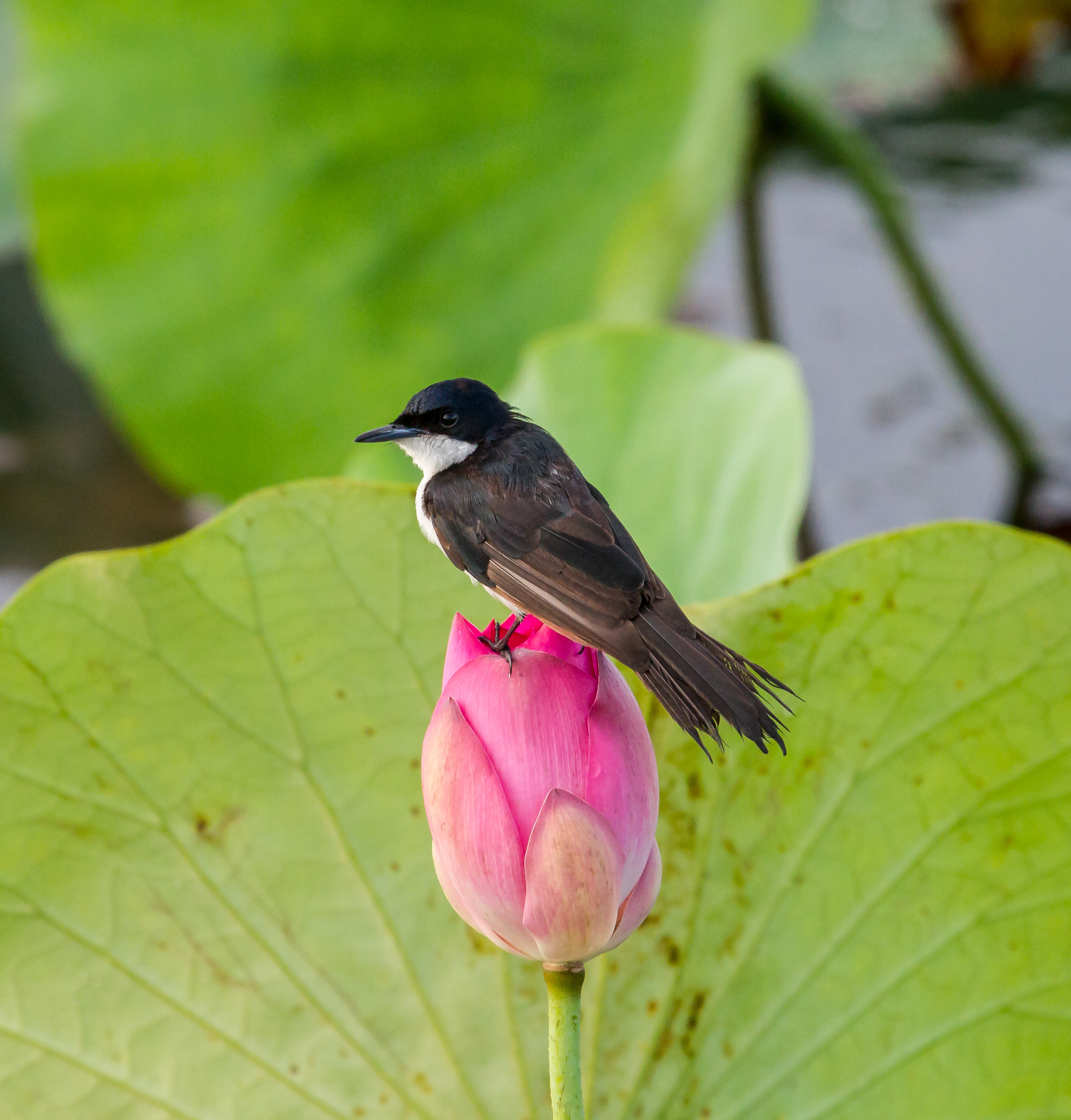 Paperbark Flycatcher on lotus bloom - Fogg Dam - Middle Point, Northern Territory - Australia